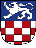 Coat of arms of Hüttlingen, Canton of Thurgau, SwitzerlandEsperanto: Blazono de Hüttlingen, Kantono Turgovio, Svislando